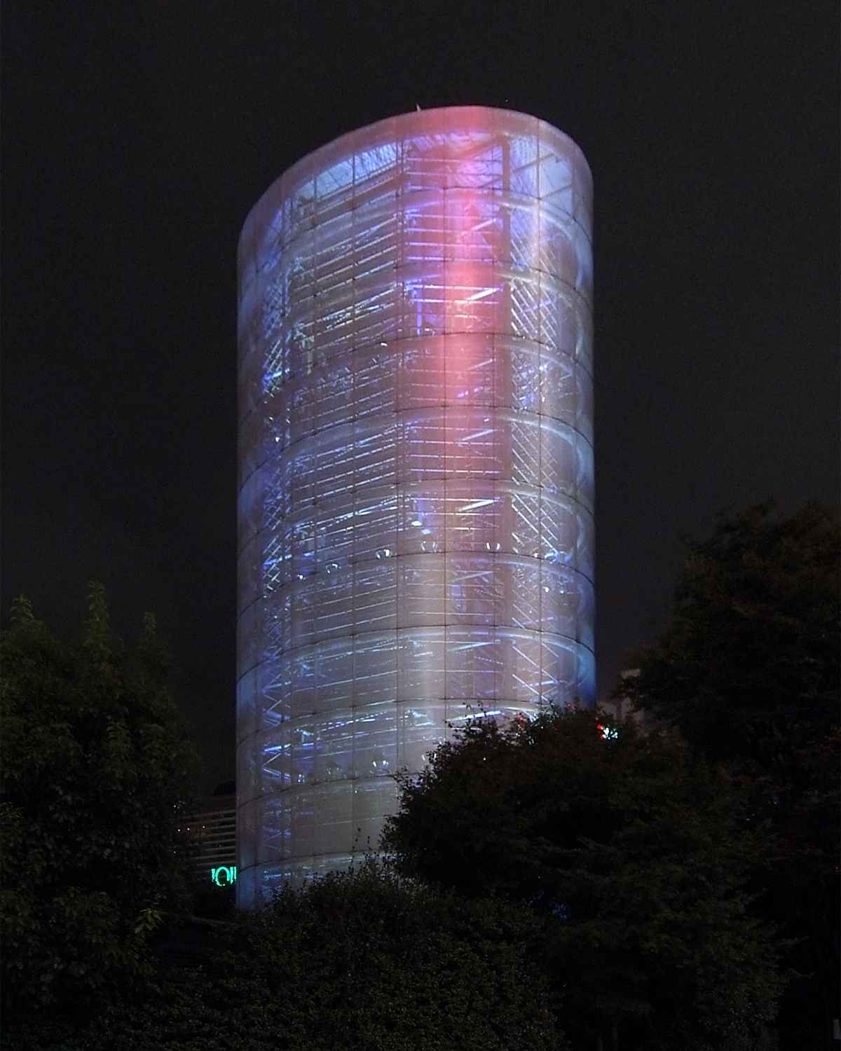 Tower of Winds, at Yokohama Kanagawa Japan, design by Toyo Ito in 1986.